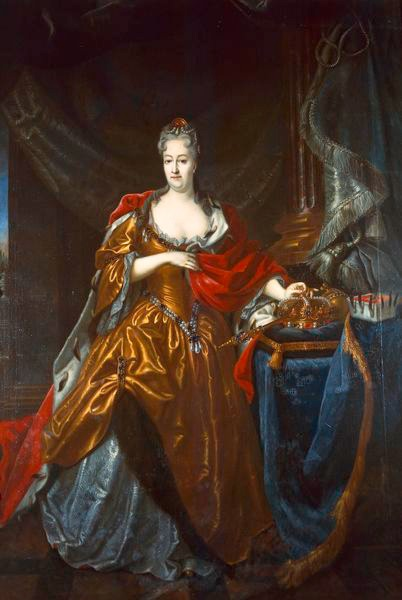 Portrait of Christiane Eberhardine of Brandenburg-Bayreuth (1671-1727), electress of Saxony and queen of Poland